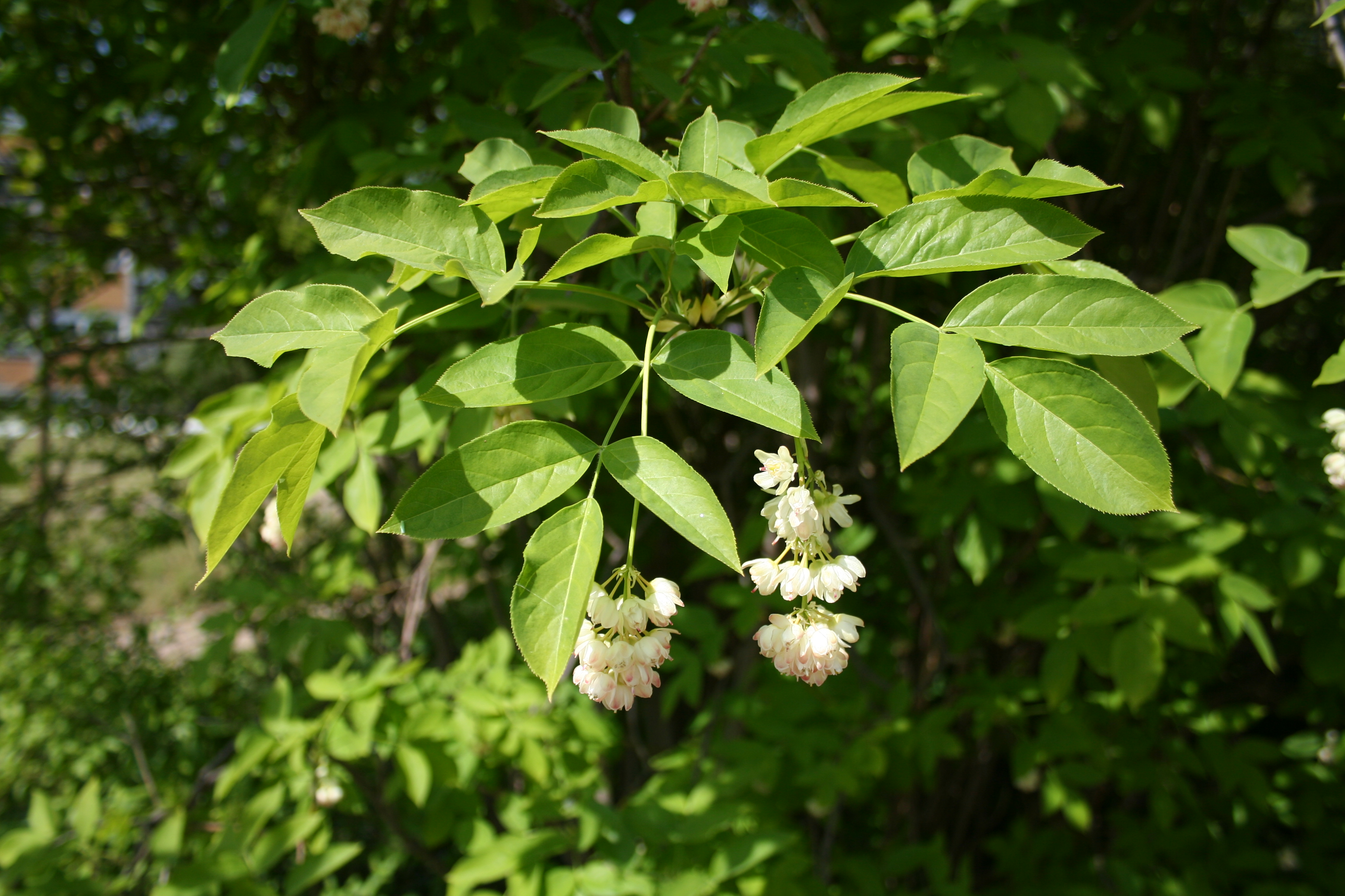 Staphylea pinnata, Bot. Garden of the University of Frankfurt